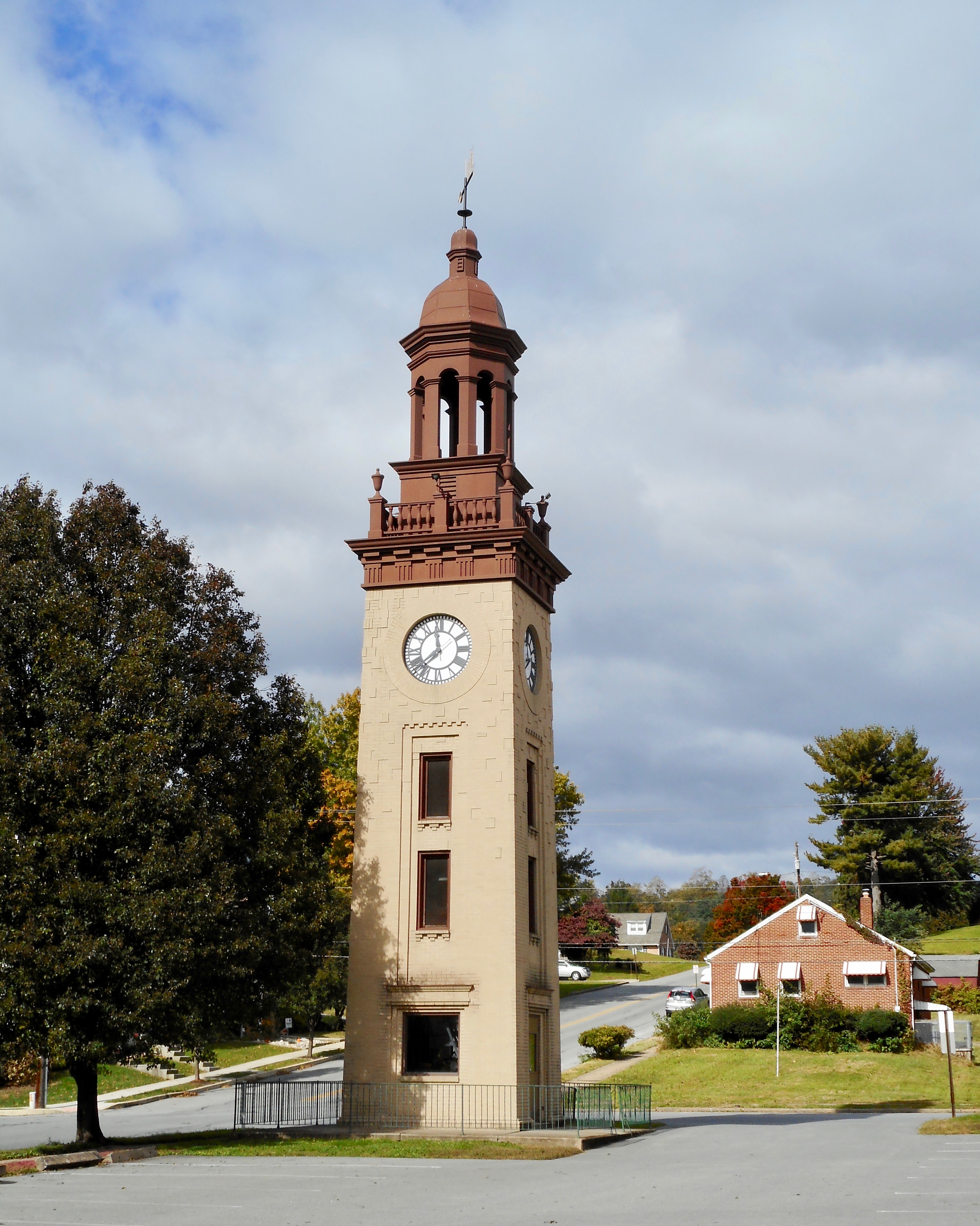 Clock Tower at the National Museum of Watches and Clocks in Columbia, Lancaster County, Pennsylvania.